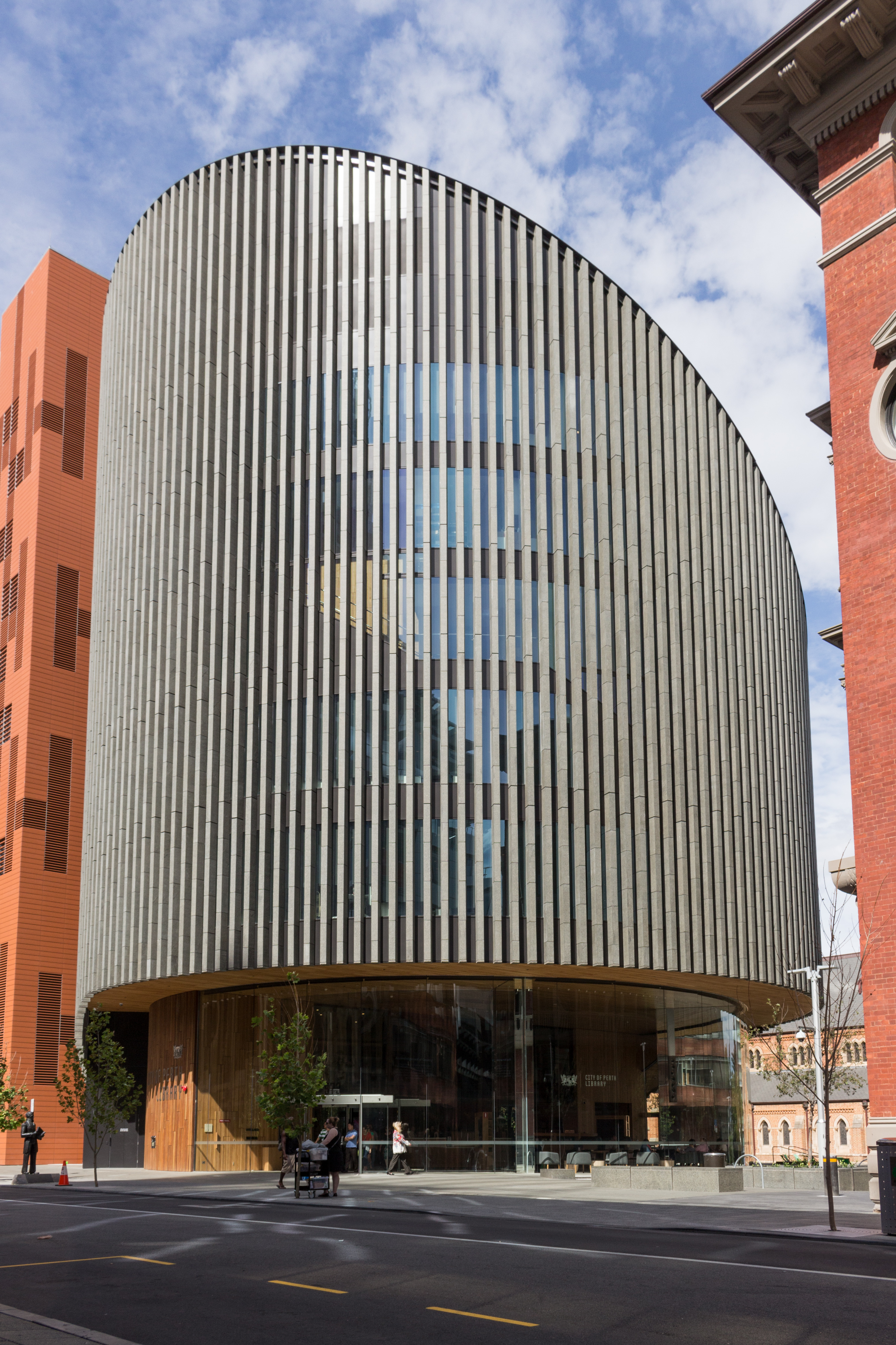 The City of Perth Library as seen from Hay Street in April 2016, soon after its completion.